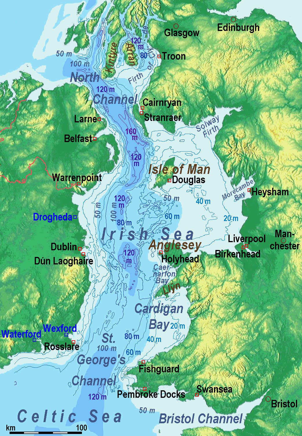 Bathysmographic map of the Irish Sea. Major ports shown with red marks. freight-only ports in blue.